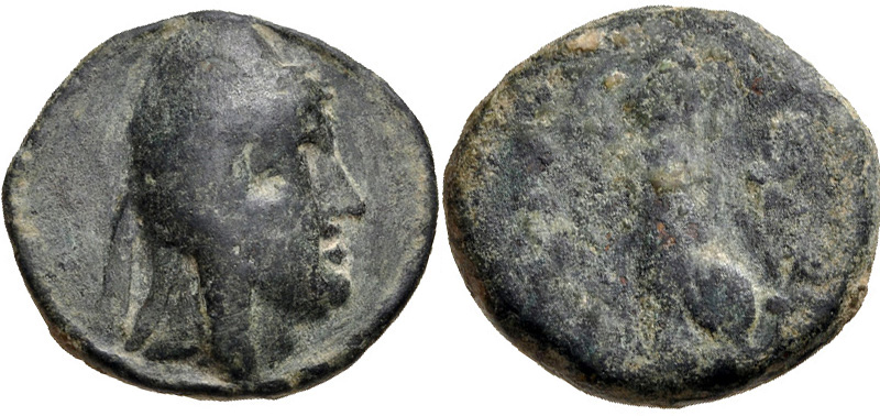 Coin of Artavasdes IV, also known as Artavasdes III of Armenia.